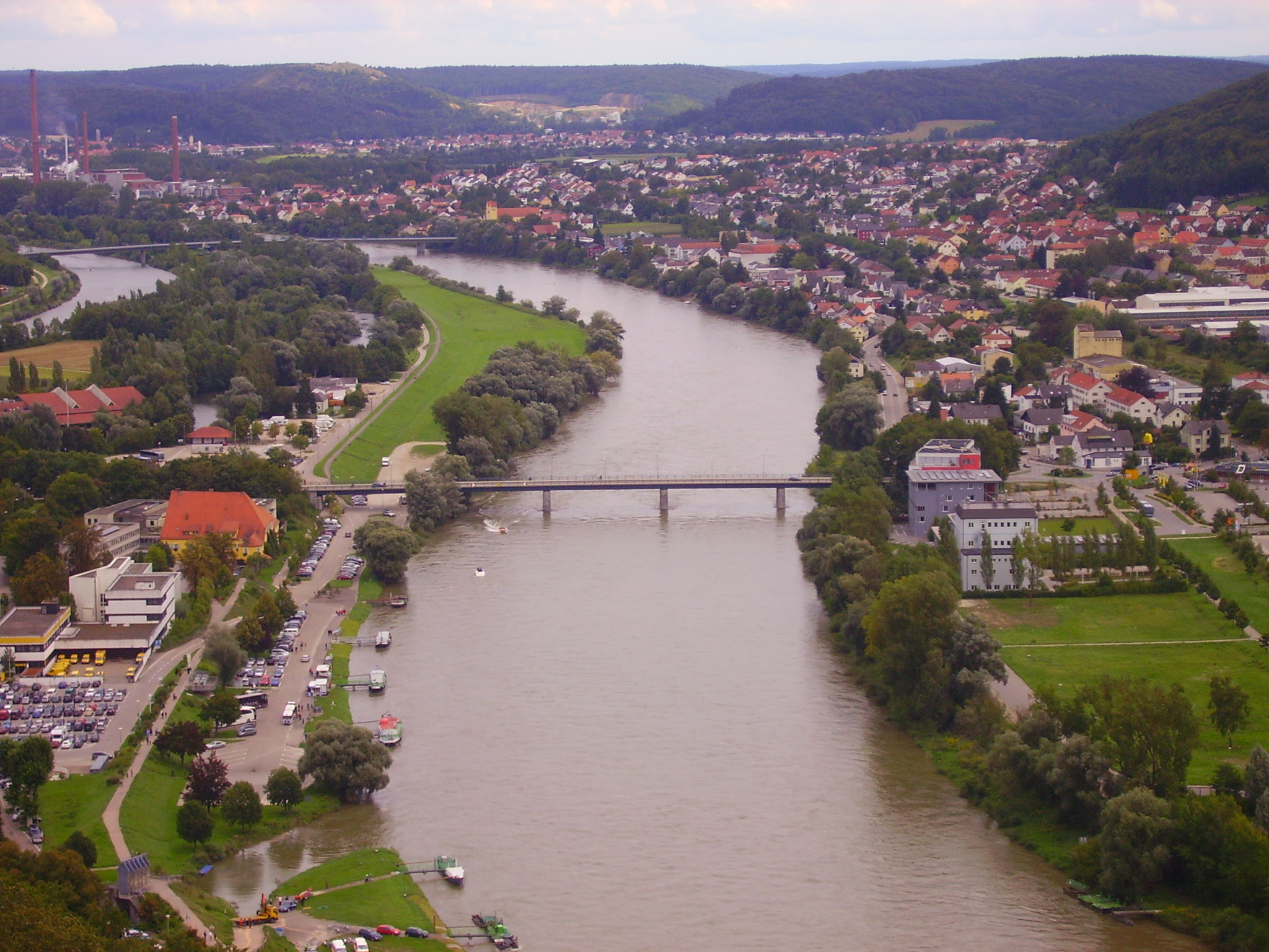 View from the Befreiungshalle/Liberation Hall, Kelheim